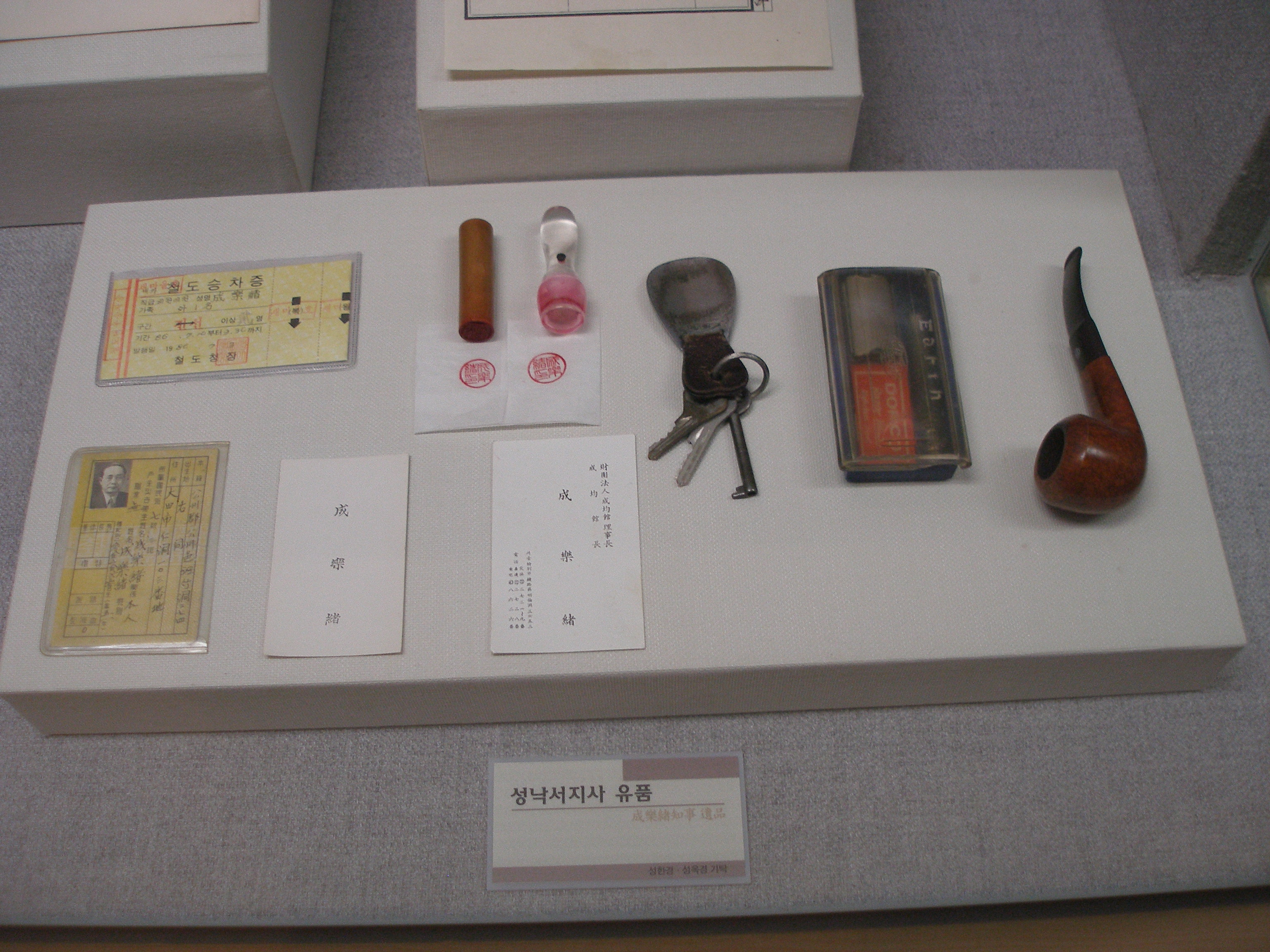 Seong Nakseo's remaints, diskpayed at Museum of South Chungcheong Province.